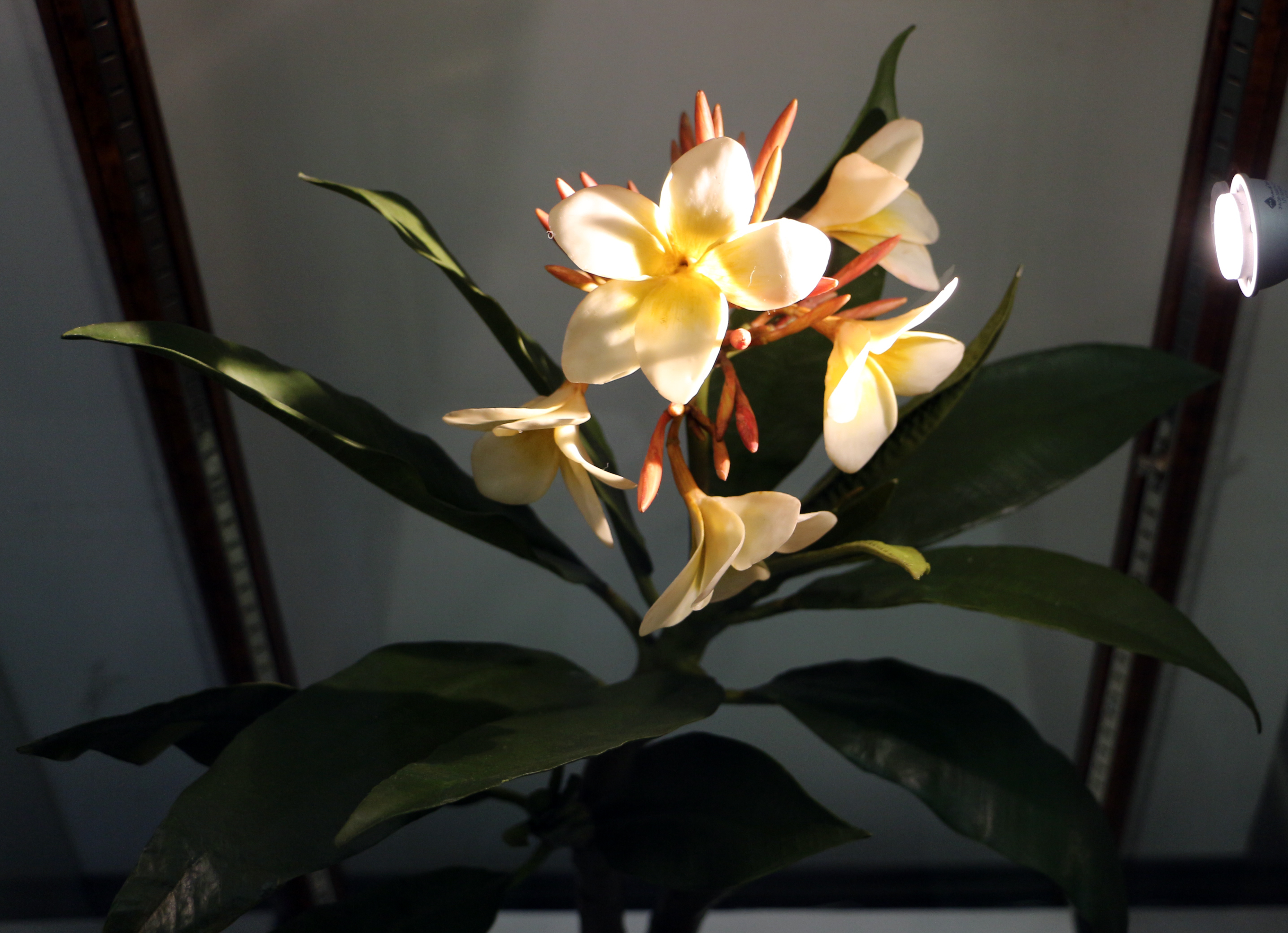 Museo di storia naturale (Florence) - Botany section - Wax models